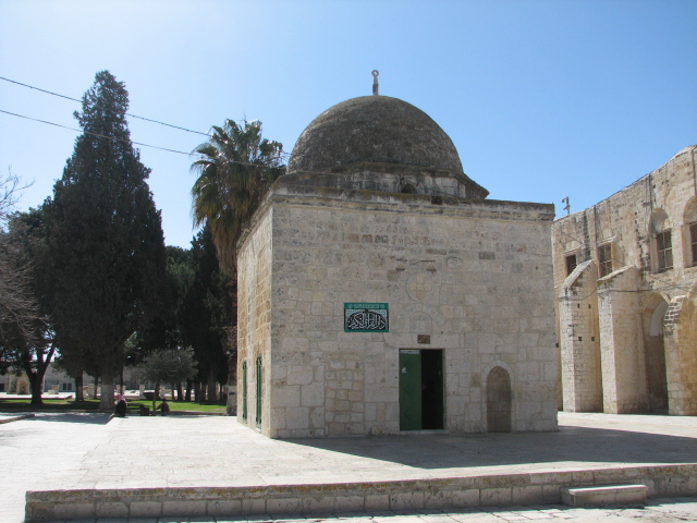 Al-Aqsa Mosque